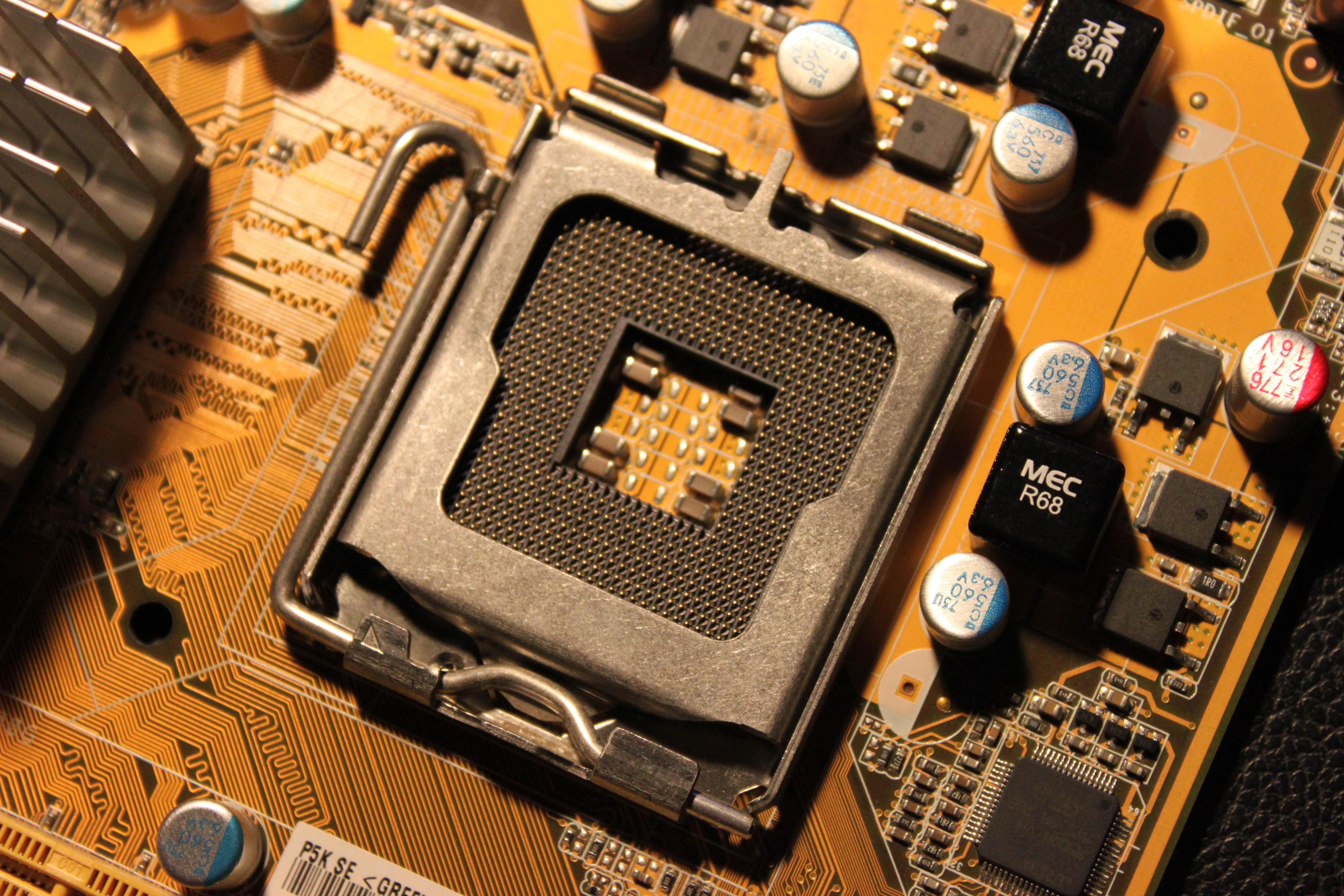 Socket 775 on a main board.